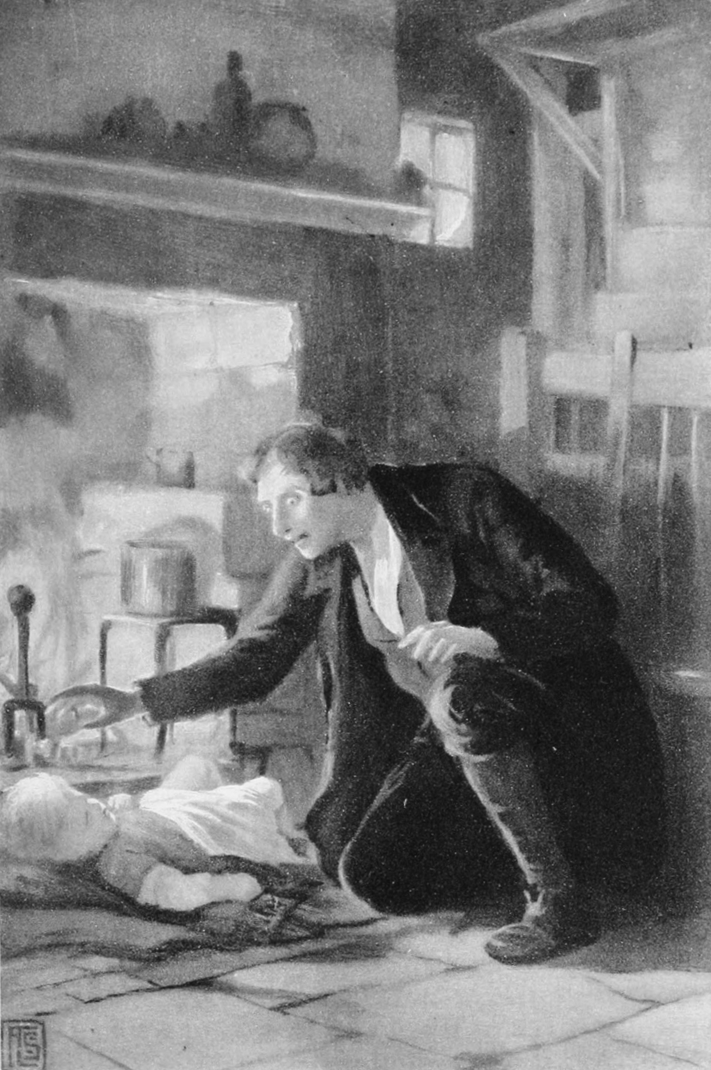 Silas finds Eppie (illustration from Silas Marner by George Eliot)